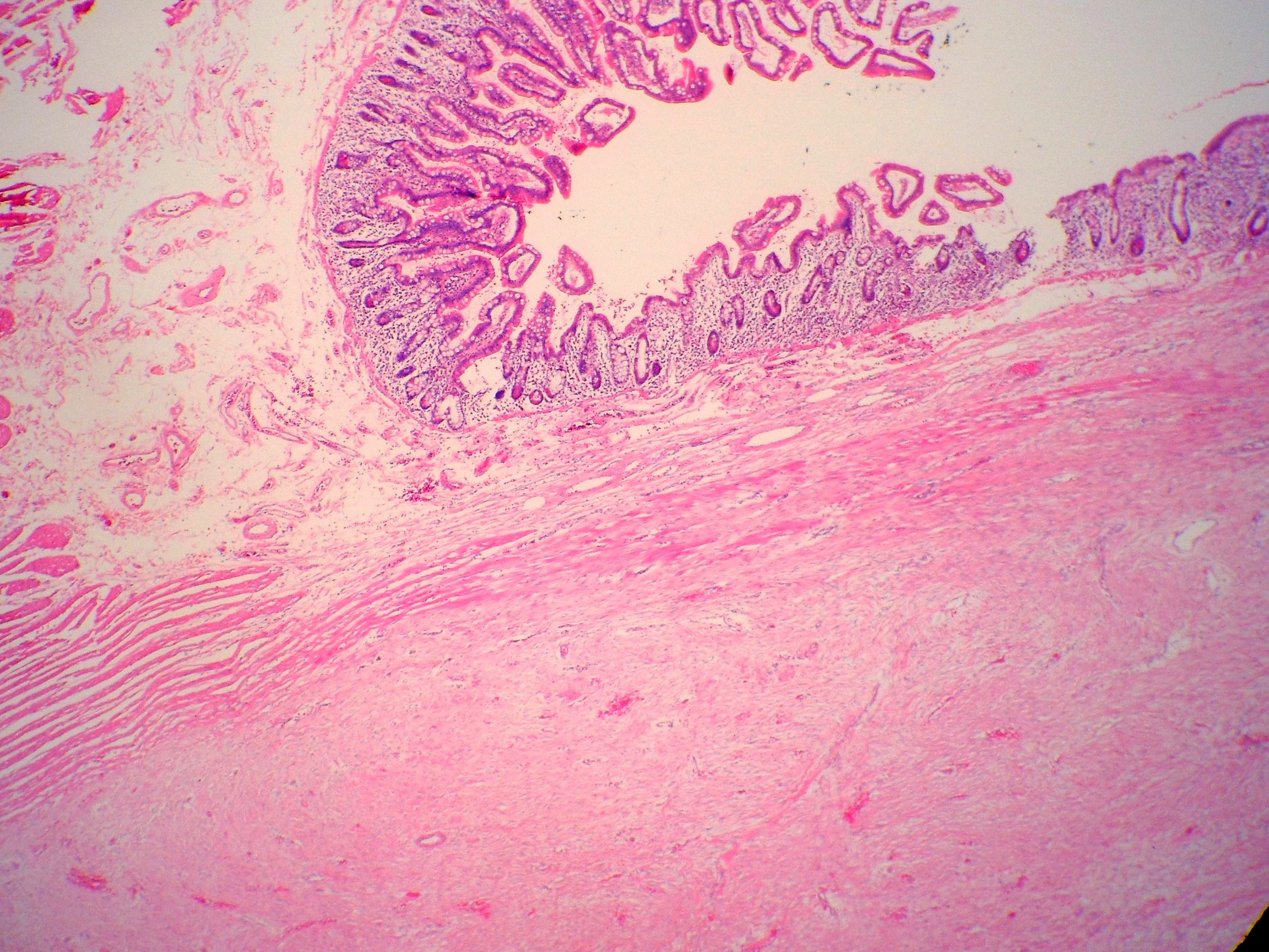 Intraabdominal desmoids can extend through the bowel to the mucosa and provoke ulceration.